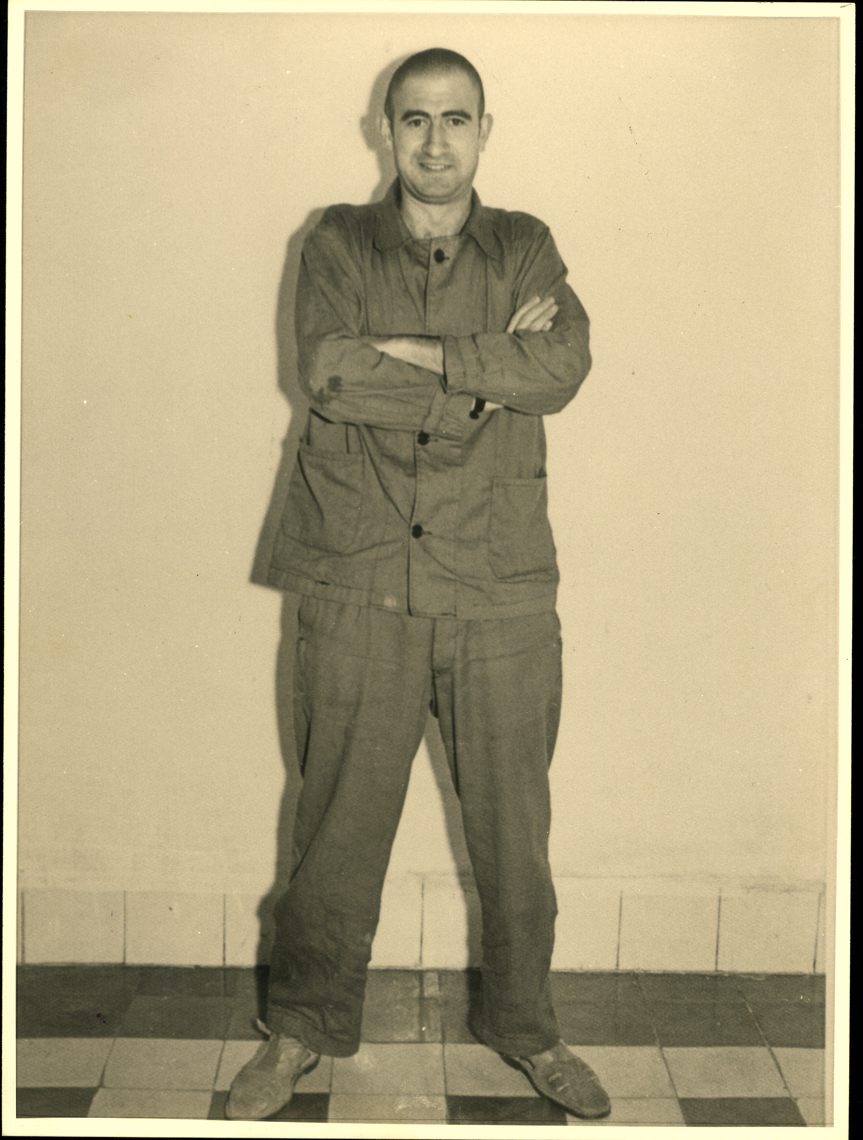 Pepe Beunza the September 27, 1971 with prison uniform in Jaén Prison, where he was for refusing to do military service.